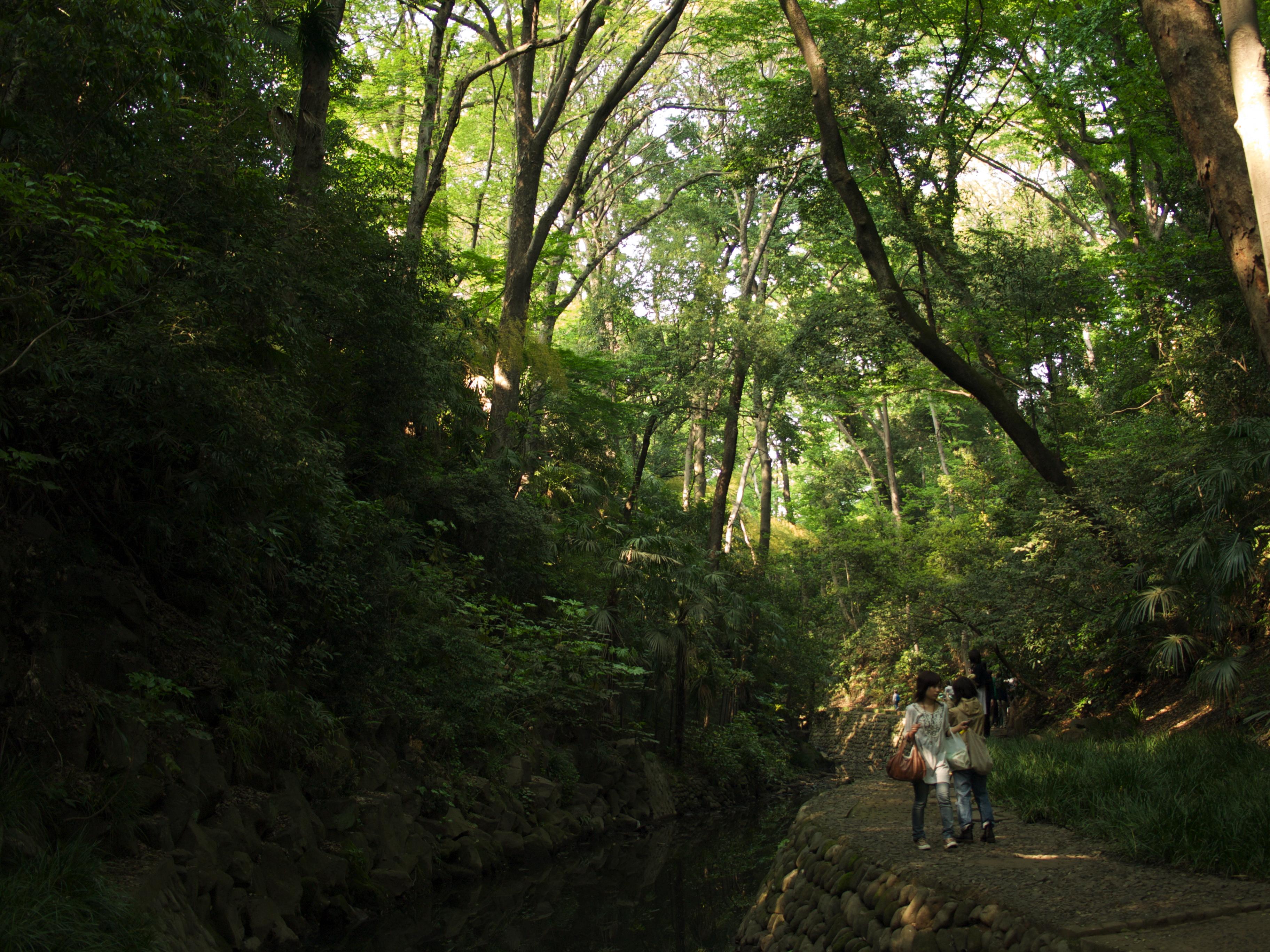 Todoroki Keikoku, a small valley in the district of Setagaya, Tokyo.